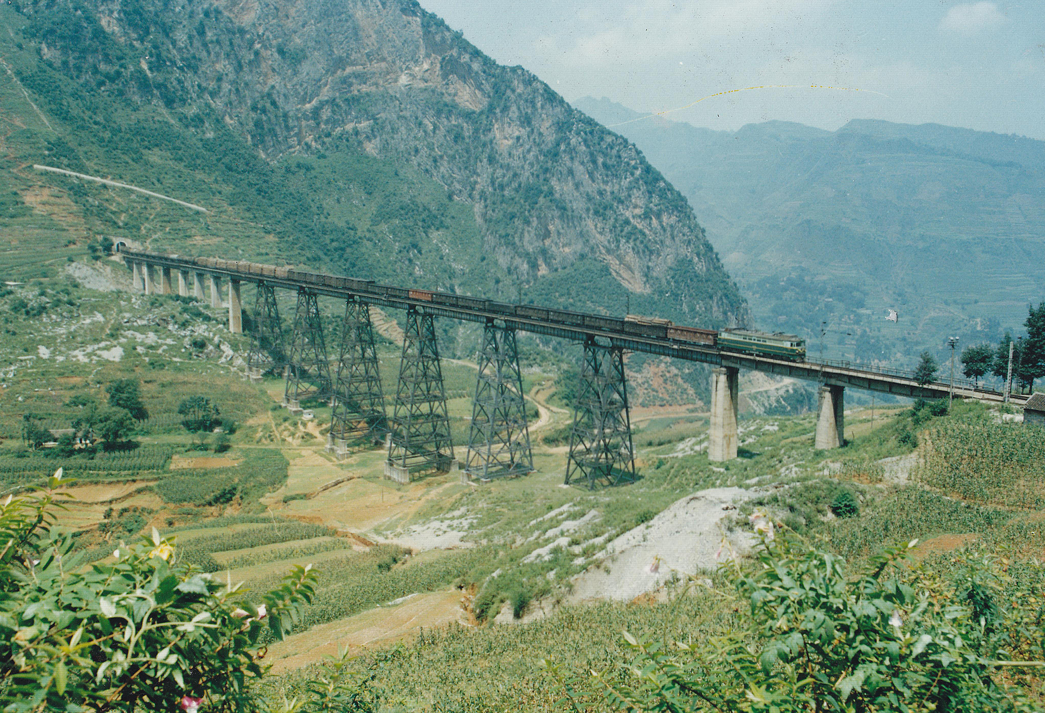 Kedu River Railway Bridge